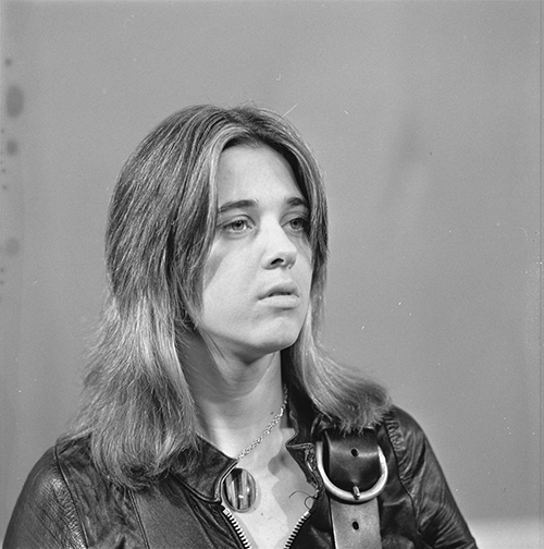 Suzi Quatro in AVRO's TopPop (Dutch television show) in 1973